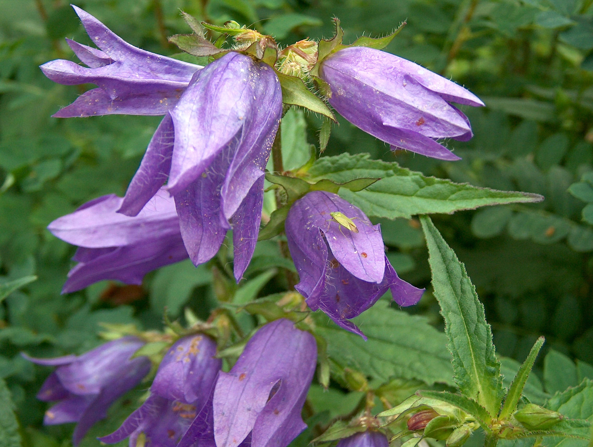 Nettle-leaved Bellflower or Campanula trachelium in Kerava, Finland